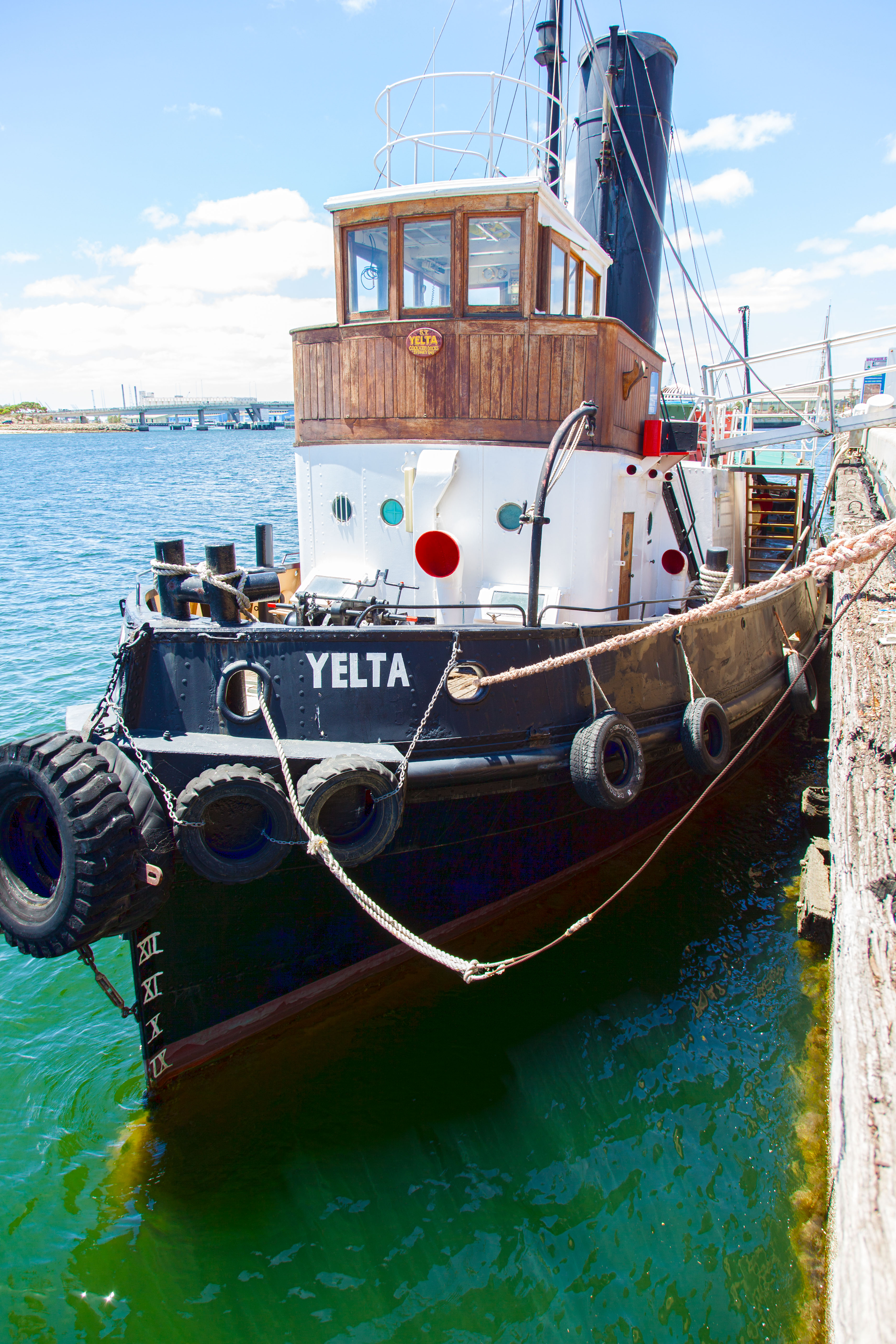 Steam tug Yelta, oldest surviving steam ship in Australia